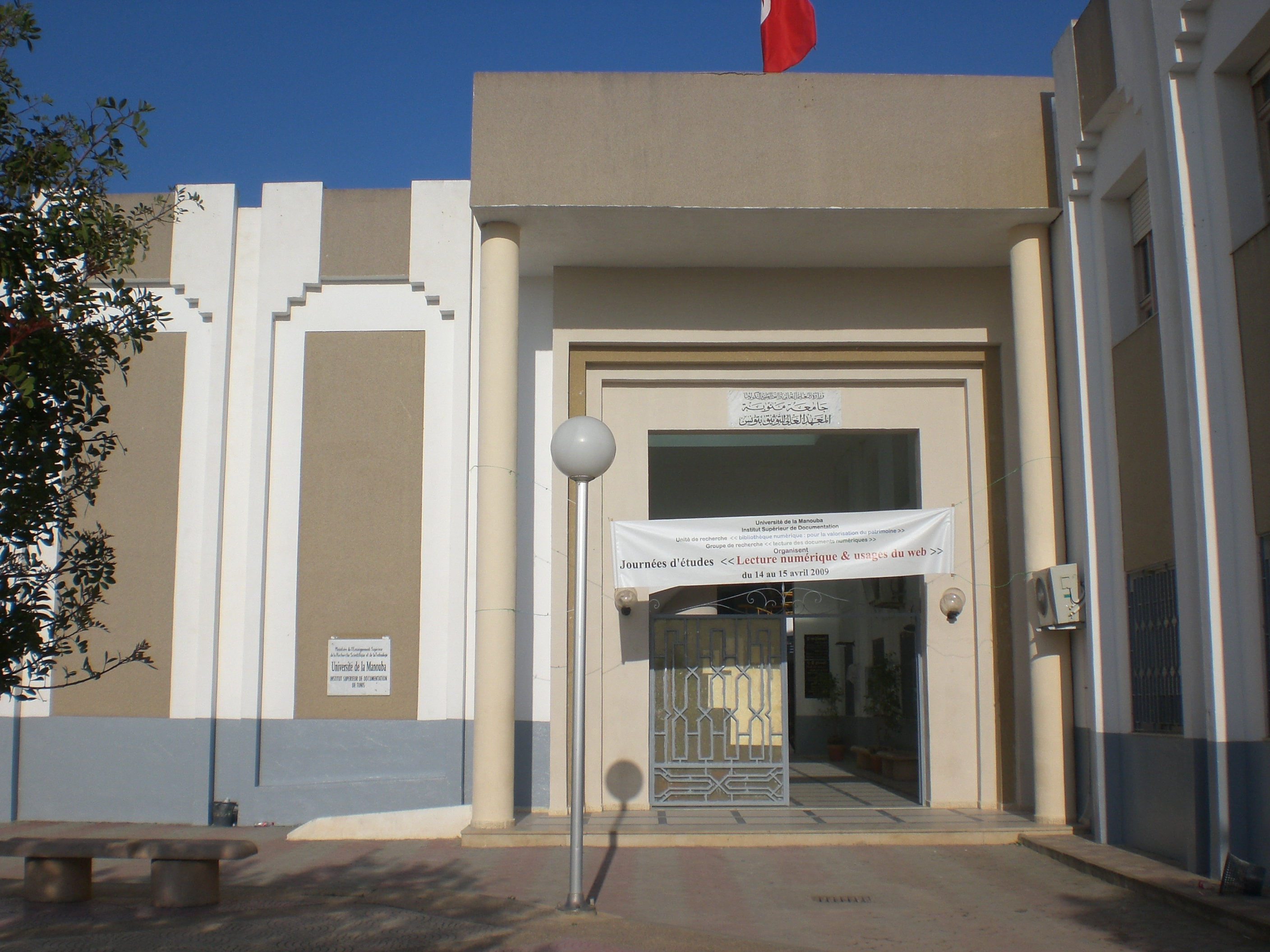 The Higher Institute of Documentation in Tunis